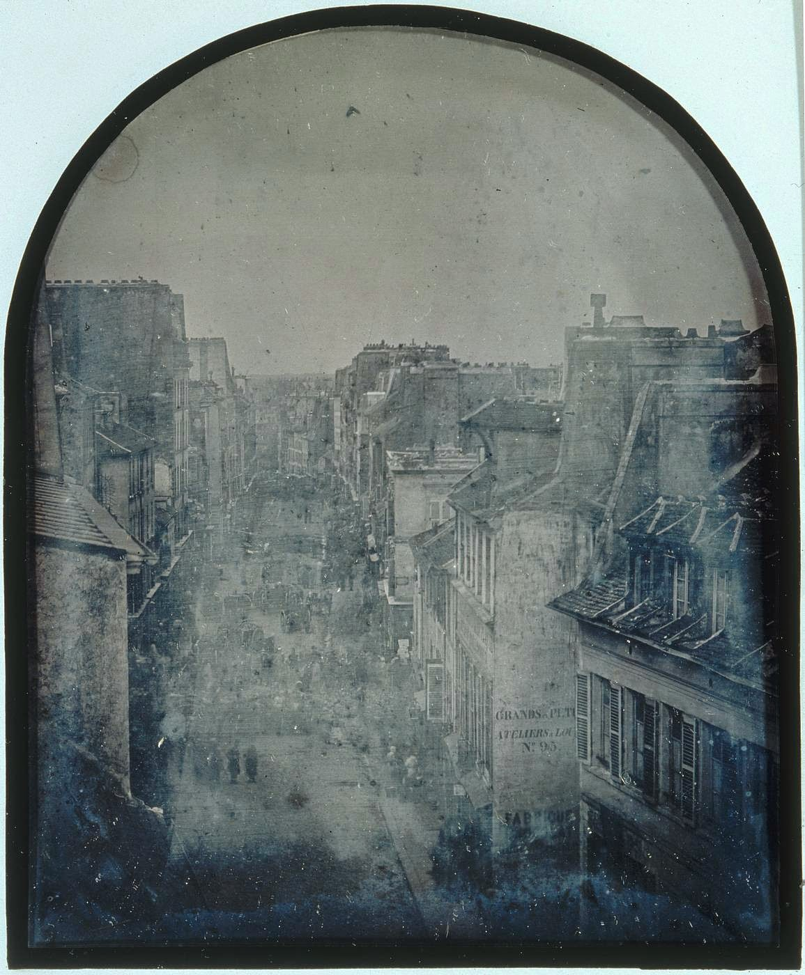 The Barricade in rue Saint-Maur-Popincourt after the attack by General Lamoricière's troops, Monday 26 June 1848